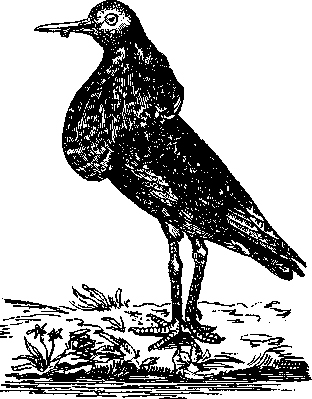 Illustration of Ruff (Philomachus pugnax) male